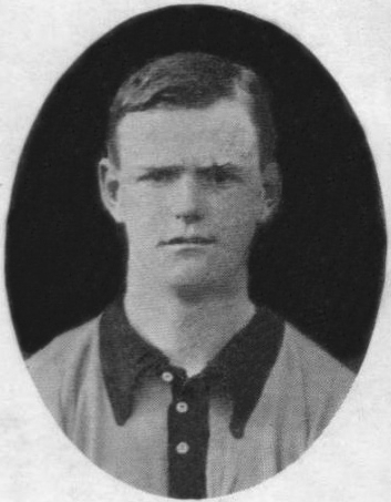 William Kirby - taken from picture card published in 1907 for Portsmouth FC.